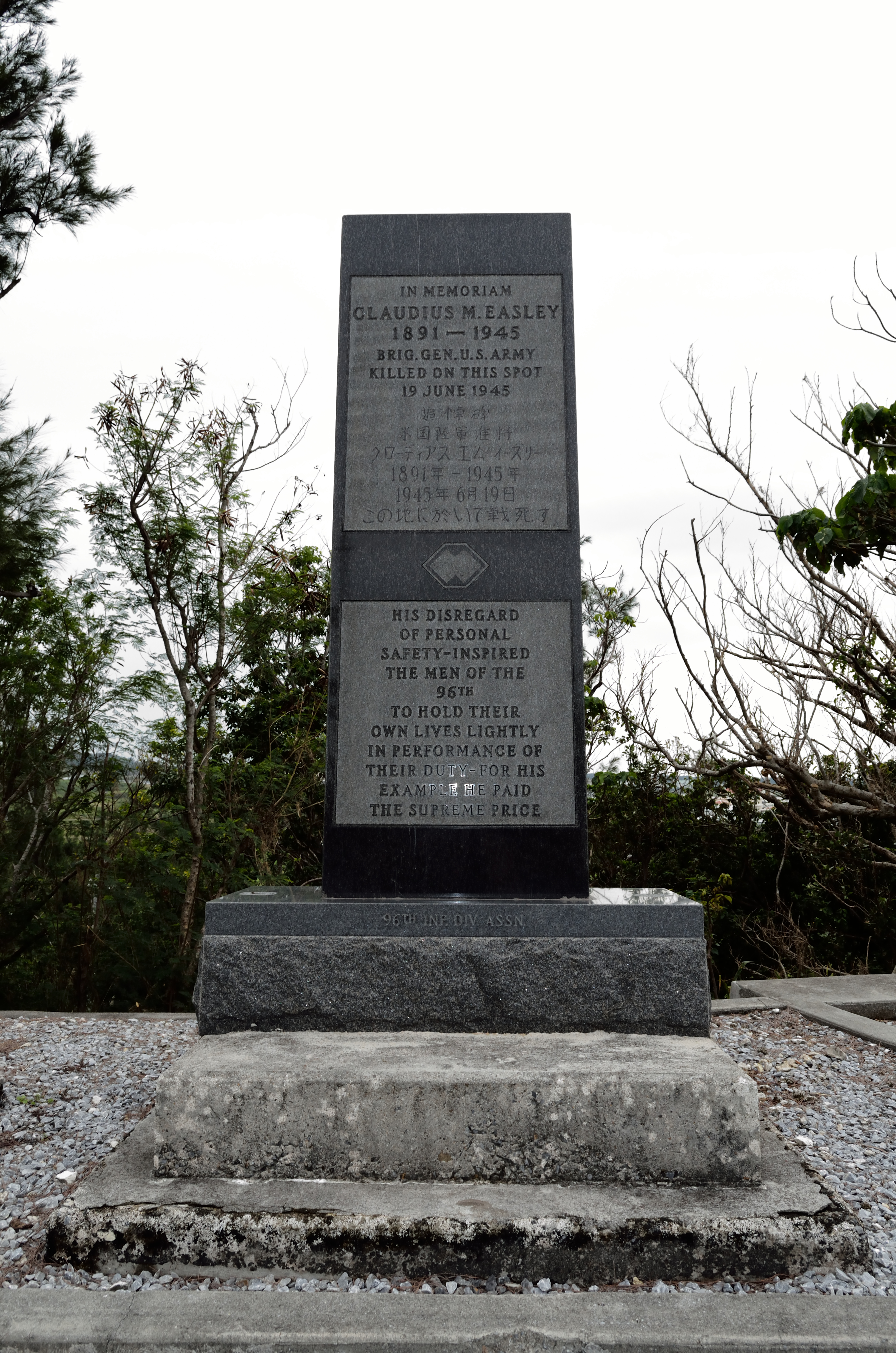 Memorial monument of Brigadier General Claudius M. Easley of the 96th Infantry Division of the US Army at Okinawa, his KIA place.